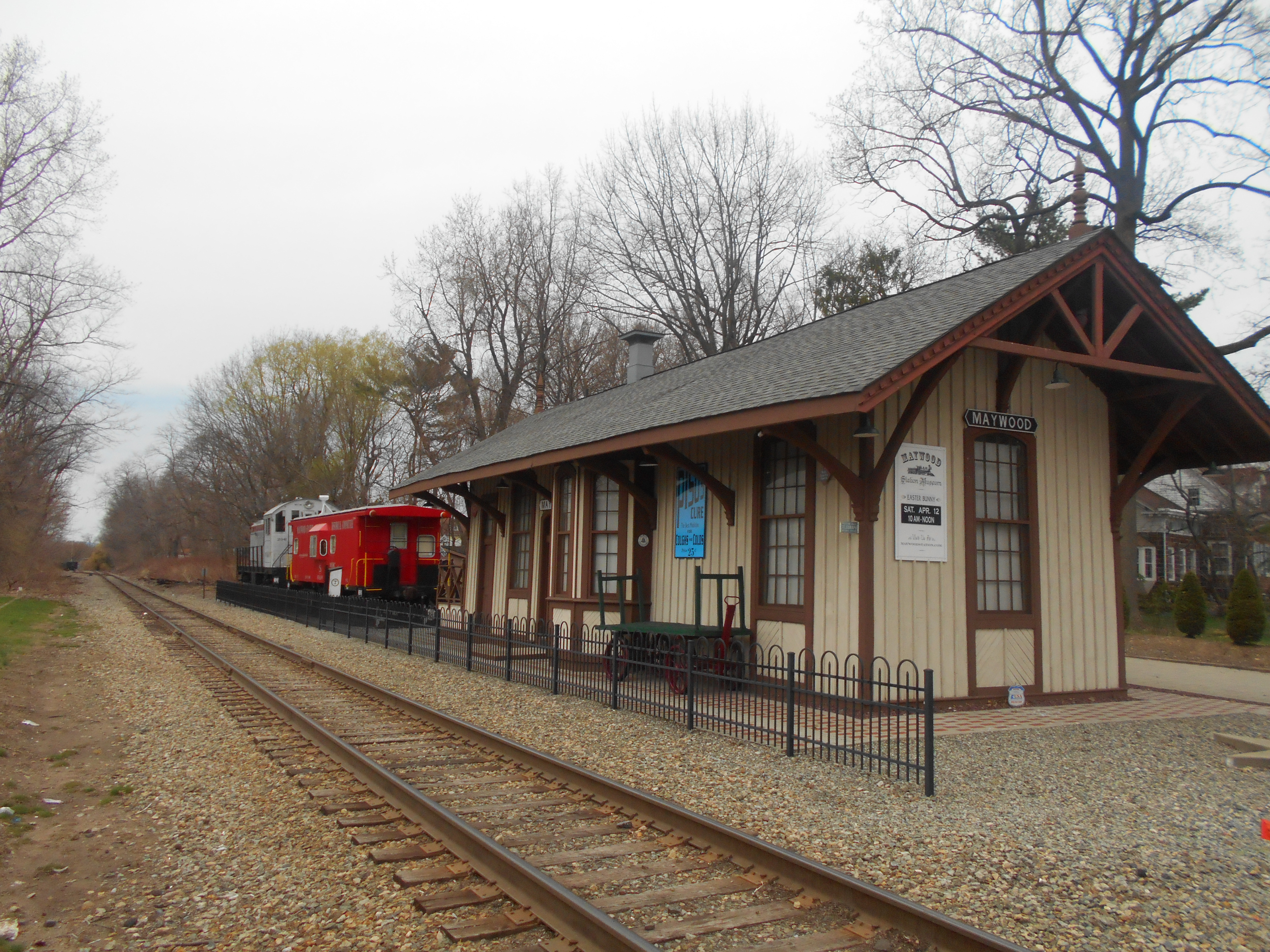 Maywood station, now the Maywood Station Museum as seen in April 2014.